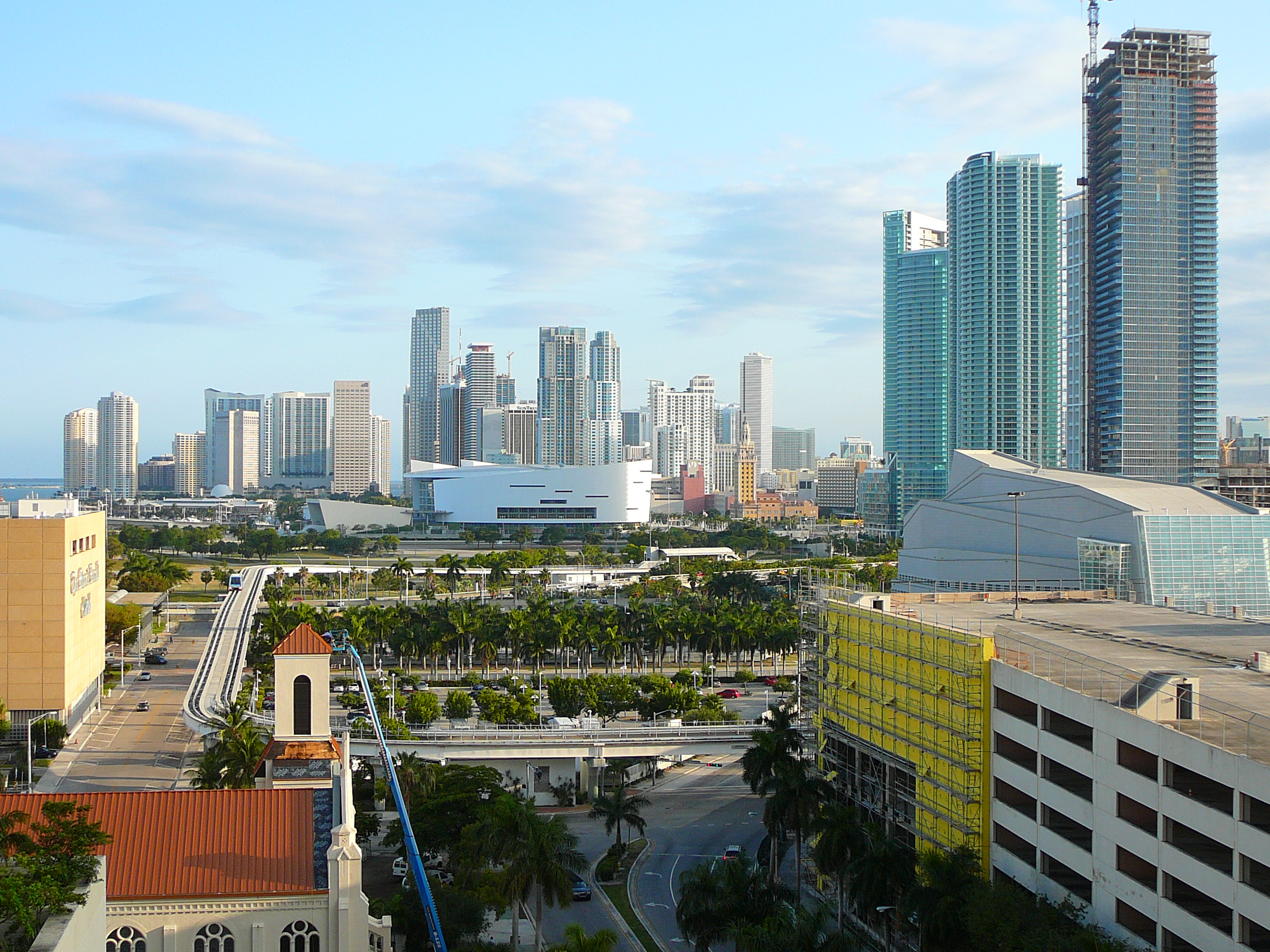 Digital photo taken by Marc Averette. View of downtown Miami, Fl from the north (Omni area) on 4/8/2008.